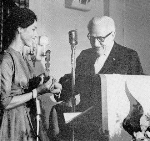 Dance Magazine publisher Rudolf Orthwine presents an award to Maria Tallchief at the magazine's annual award ceremony, April 28, 1961.